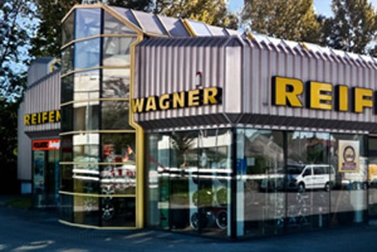 branch of Pneumobil Reifen und KFZ-Technik GmbH in Ingolstadt / Germany